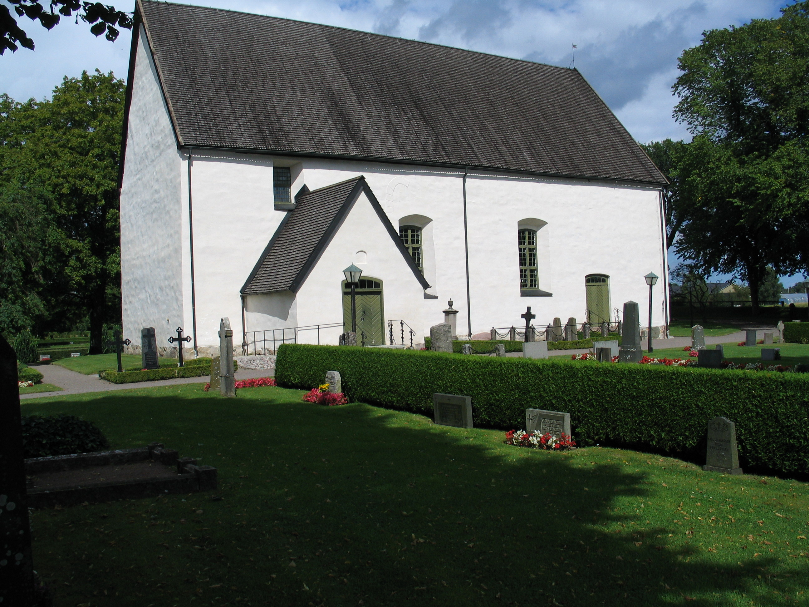 Dörby Church. Exterior.